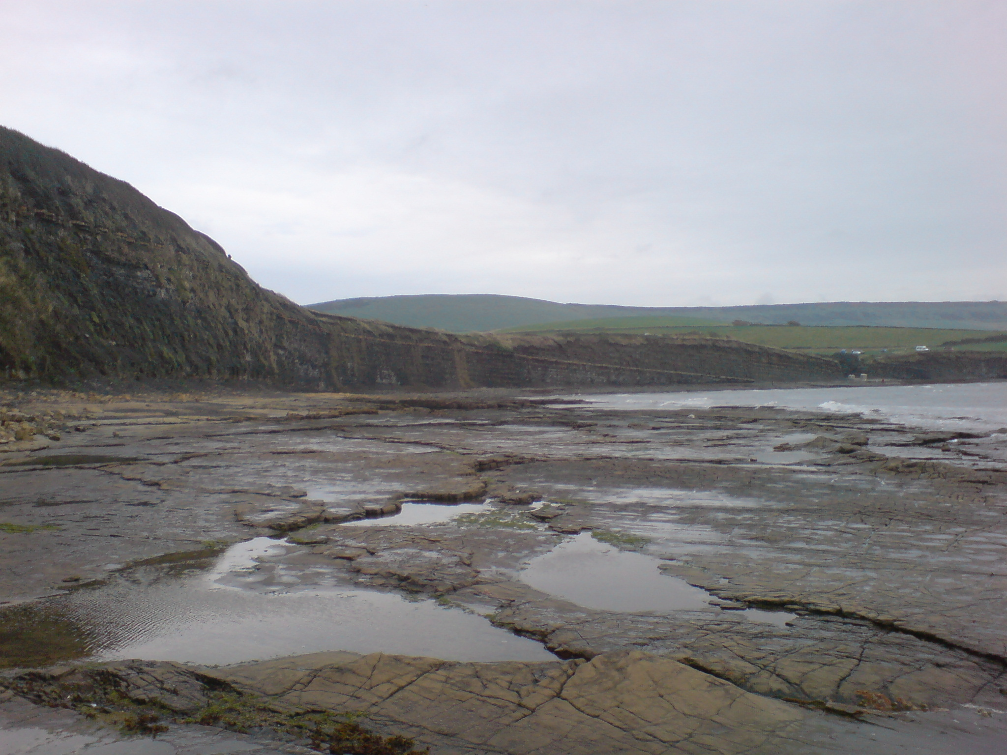 West side of Kimmeridge Bay wave cut platform. The BP nodding donkey can just been seen on top of the cliff.